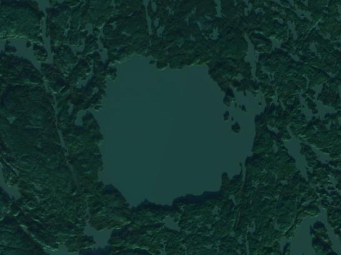 Pilot Lake in an impact crater (in winter), Northwest Territories, Canada